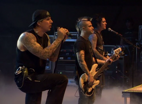 Монгол: Avenged Sevenfold performing at 12 October 2008